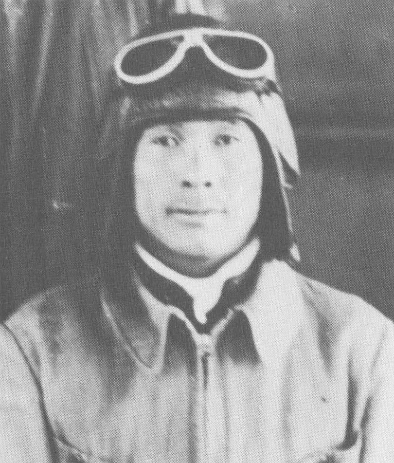 Imperial Japanese Navy fighter ace Tadashi Kaneko. In service in the Sino-Japanese and Pacific wars, he was credited with destroying 8 enemy aircraft. This photo was taken in 1936 or 1937 when Kaneko was serving on the aircraft carrier Ryūjō.